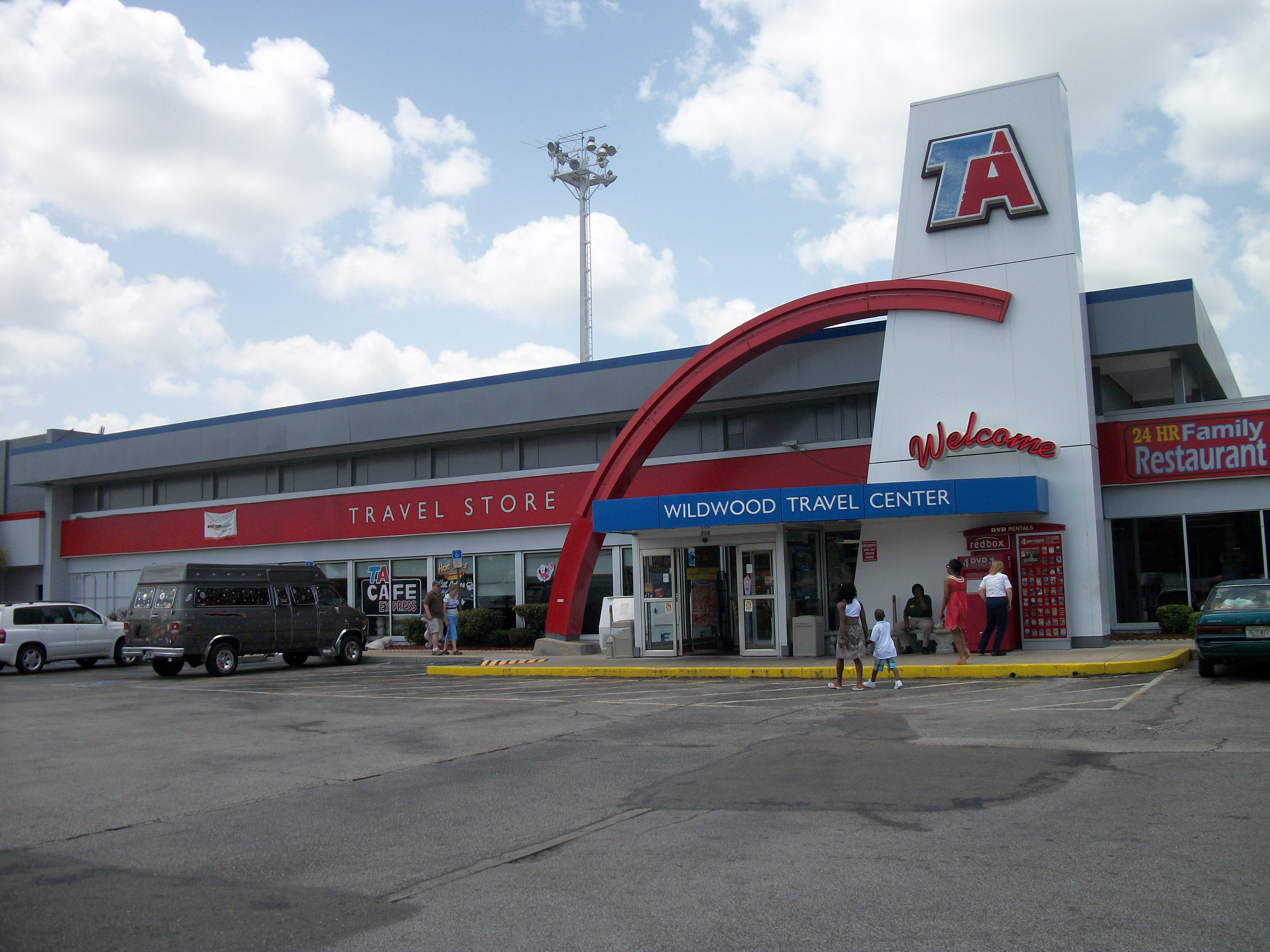 The Wildwood Travel Center, a franchise of Travel Centers of America along Interstate 75 off of Florida State Road 44 in Wildwood, Florida. This section of SR 44 is loaded with truck stops, tourist centers, hotels, and what not, not only because of the interchange with I-75, but because of the close proximity of the northern terminus of Florida's Turnpike.